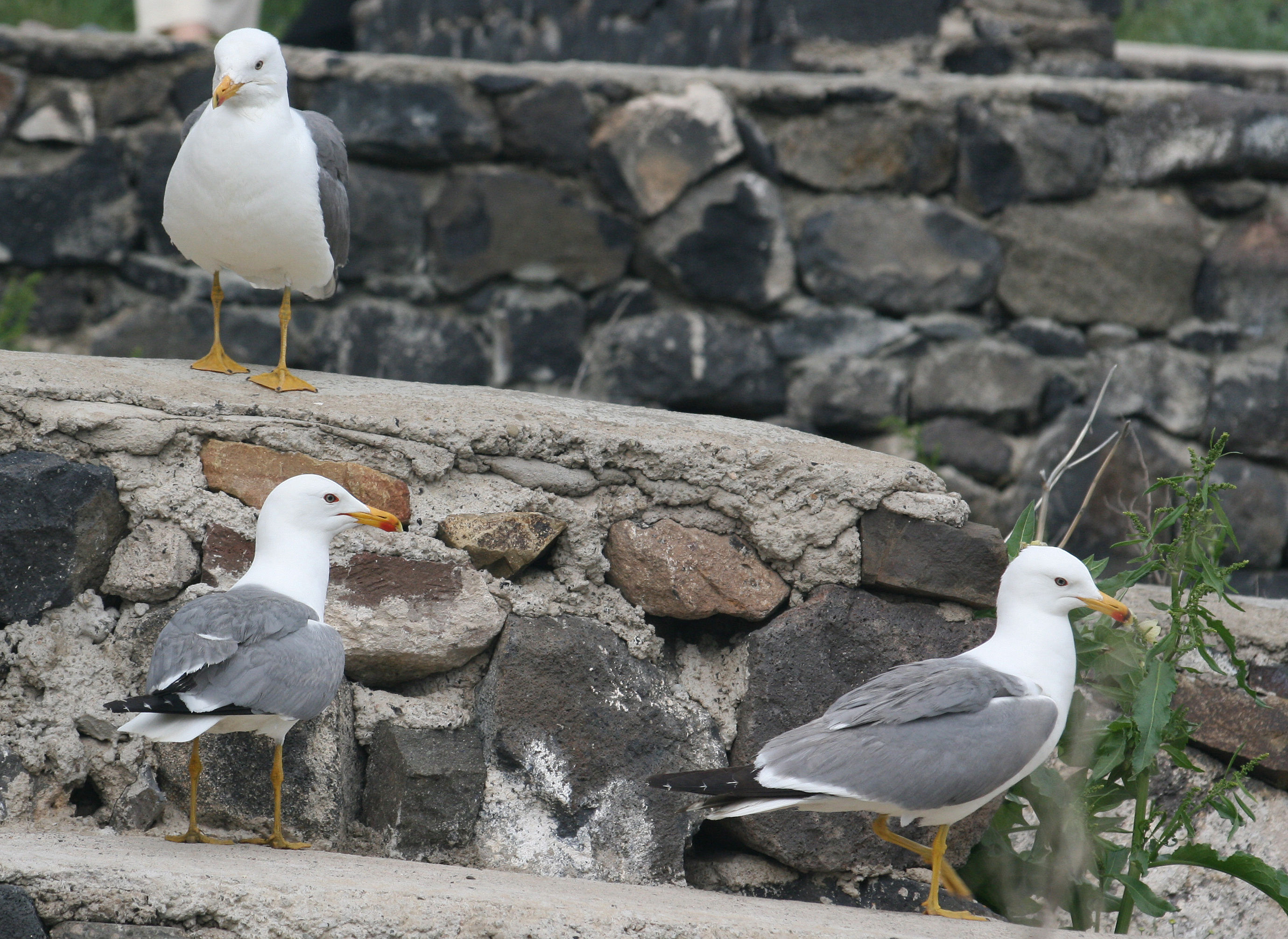 Three Armenian Gulls near Sevanavank - front, back and side views